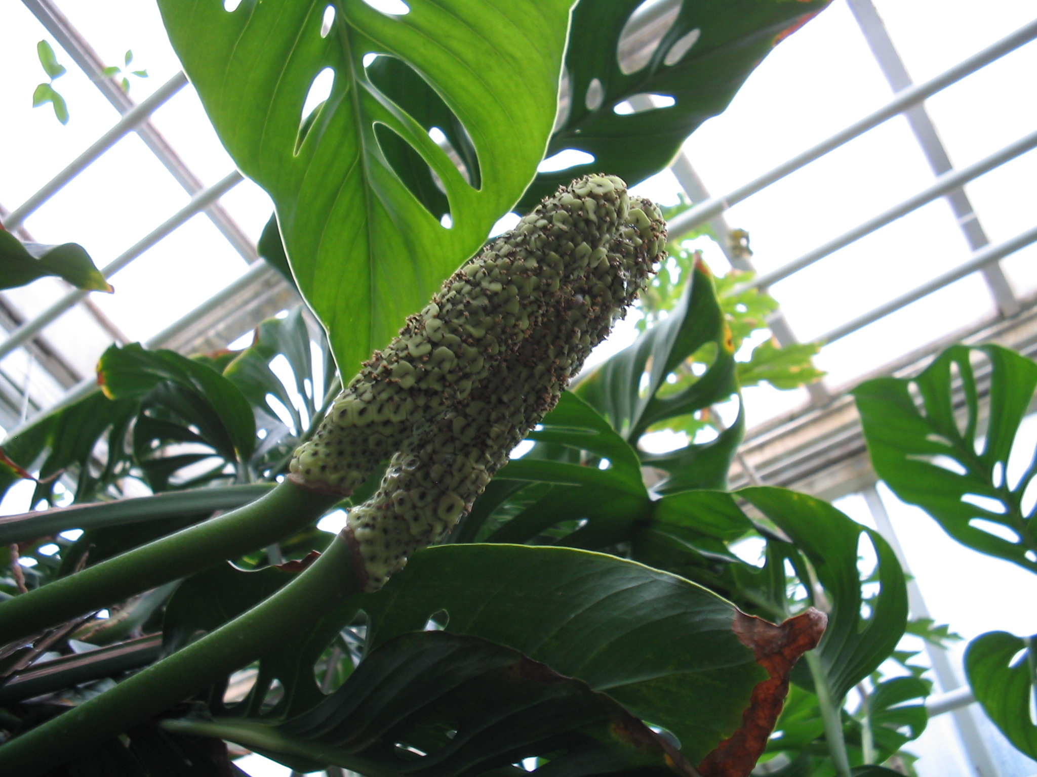 Monstera Adansonii with fruit